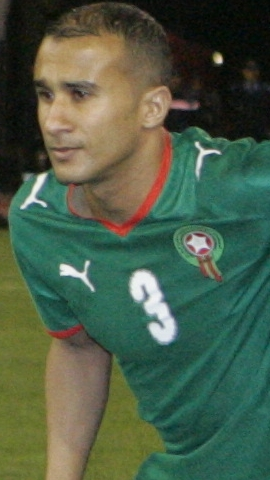 Badr El Kaddouri (Morocco) before the friendly match against Czech Republic on February 11, 2009